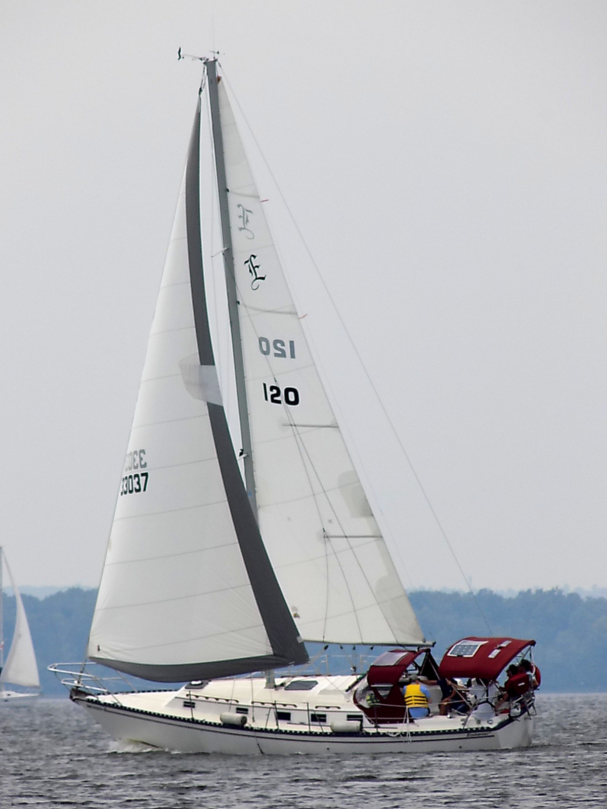 An Endeavour 33 sailboat named Sin Wagon.